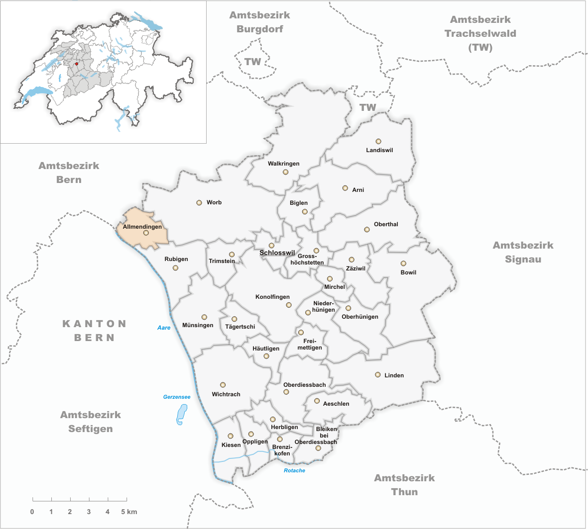 Municipality Allmendingen